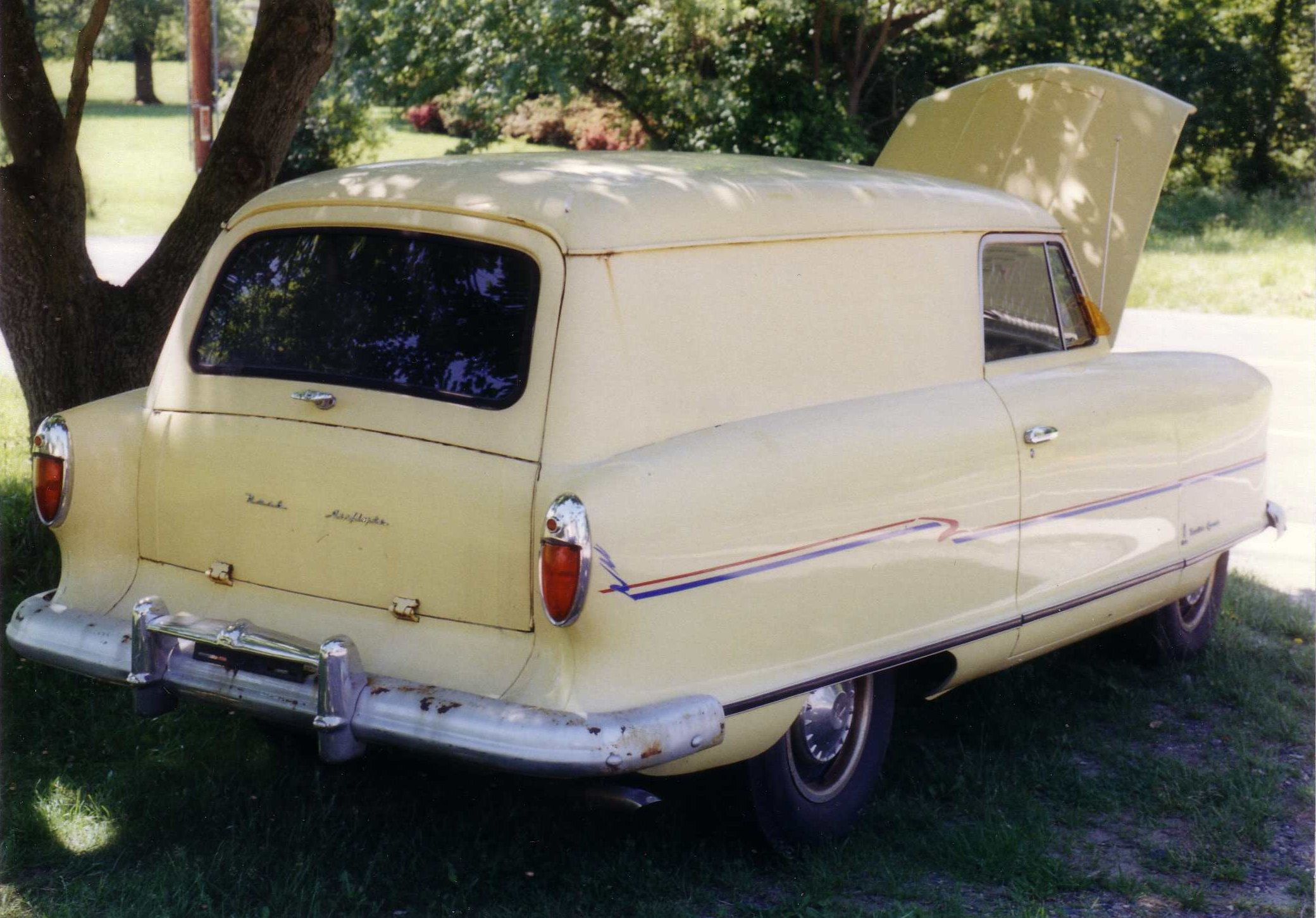 1953 Nash Rambler Deliveryman. However, this model was no longer listed in the regular 1953 catalog, and records indicate only nine were built ( This possibly could be a converted Greenbrier 2-door wagon wagon of which only 3,536 were made? ( The stripes and trim on the body side are not factory. Photograph taken where this car was for sale in Maryland.